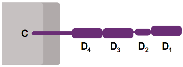 Schematic representation of CD4 receptor, found on TH1 and TH2 cells. It consists of four extracellular immunoglobine-like domains (D1-D4) and a carboxy terminus (C) in the cell membrane.